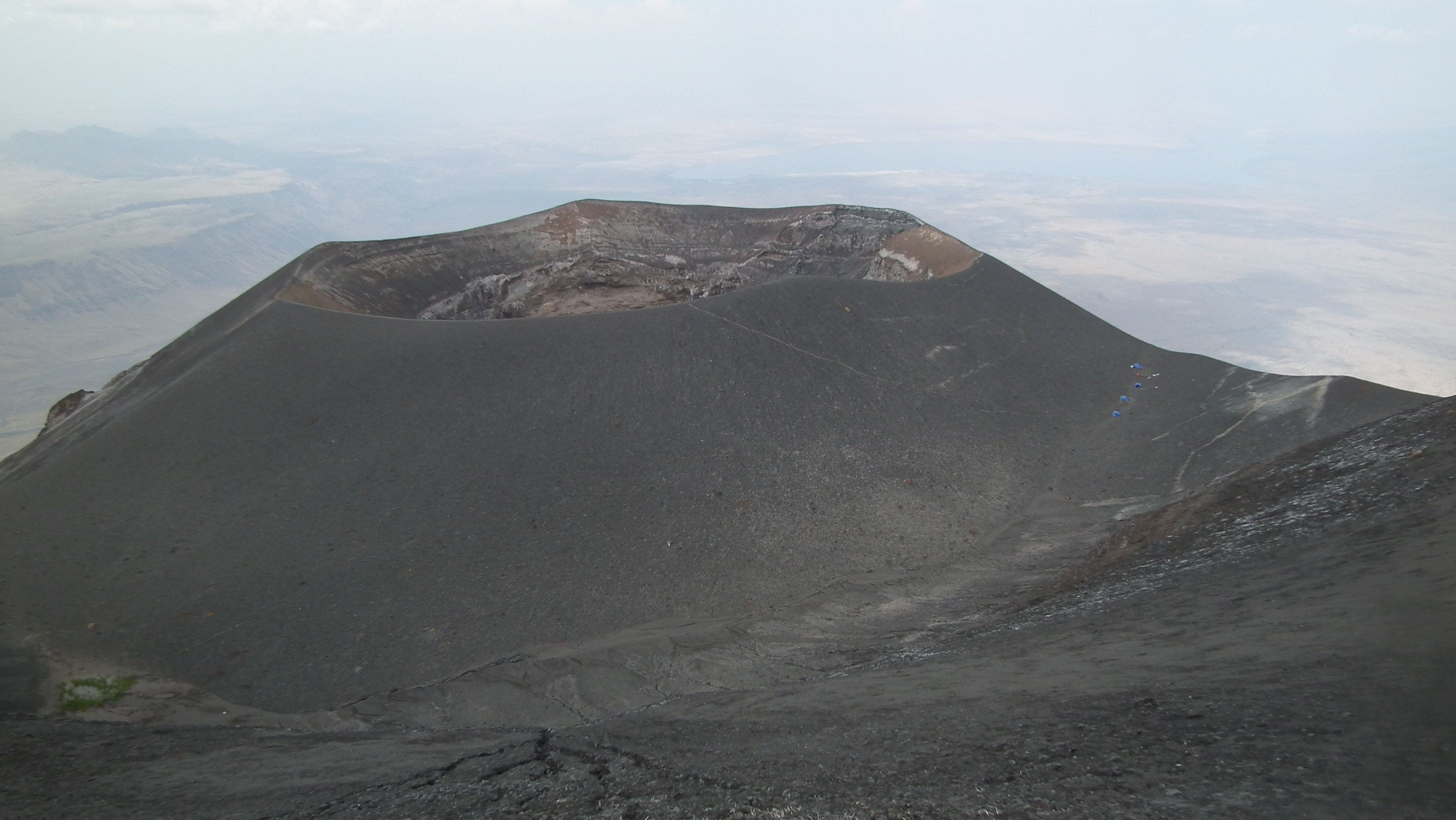 Crater of Ol Doinyo Lengai in January 2011. Lake Natron in the background.